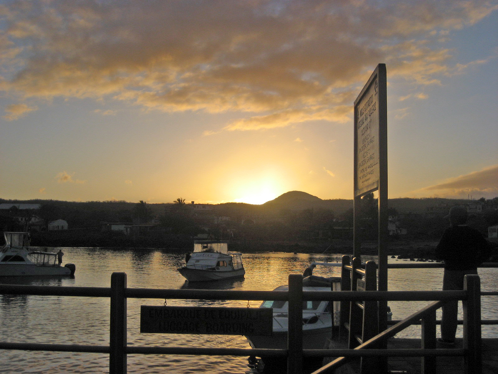 Sunrise at San Cristoban.